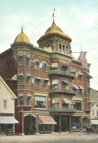 The Gerald Hotel, Fairfield, Maine. Designed by noted Maine architect William Robinson Miller (1866-1929), it was erected in 1899-1900.